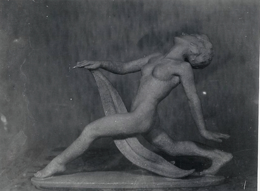 Tanzstudie, gebrannte Tonplastik, Torgau 1941